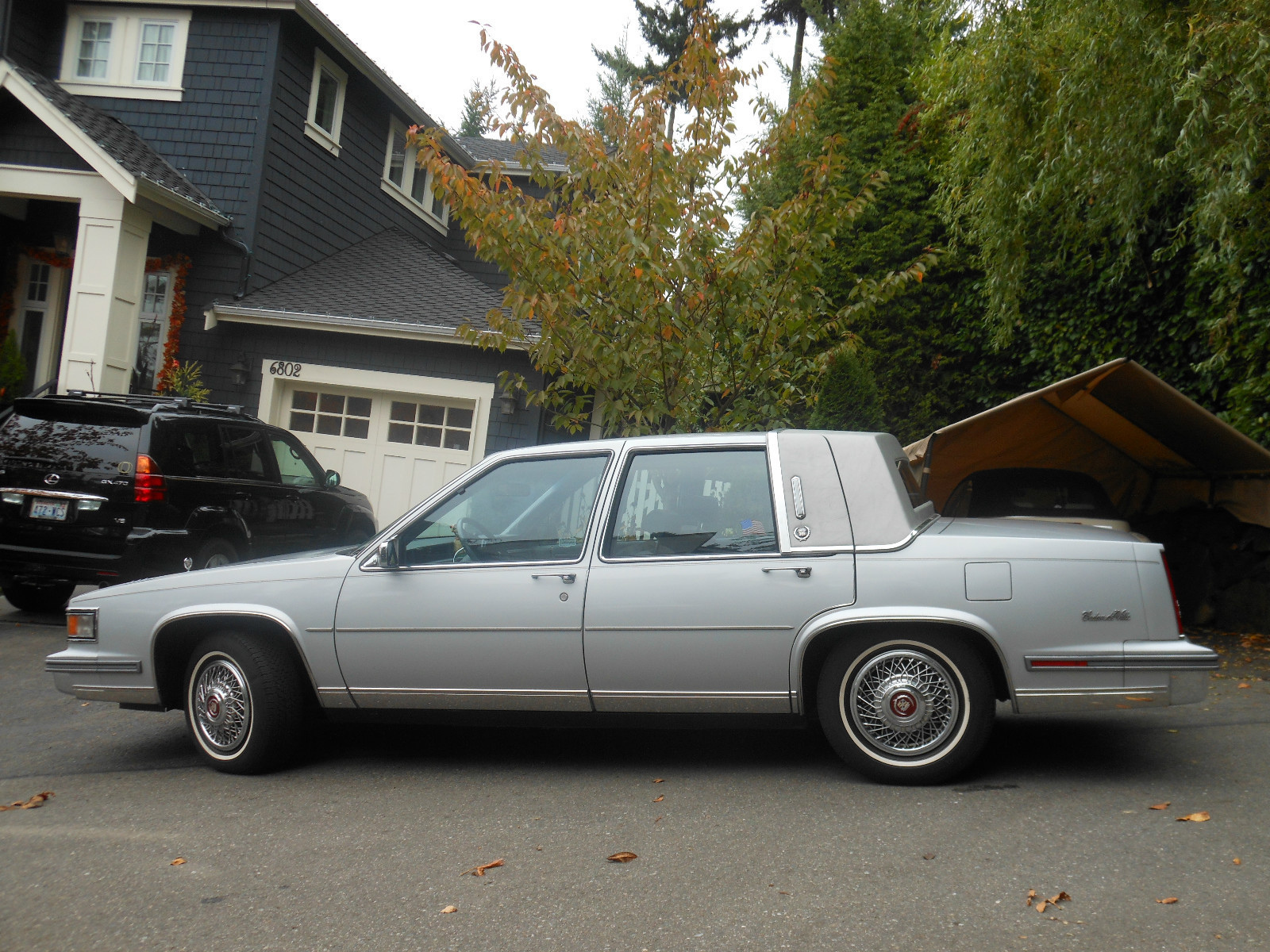 The vinyl top was not a factory offering, but a popular dealer add-on.